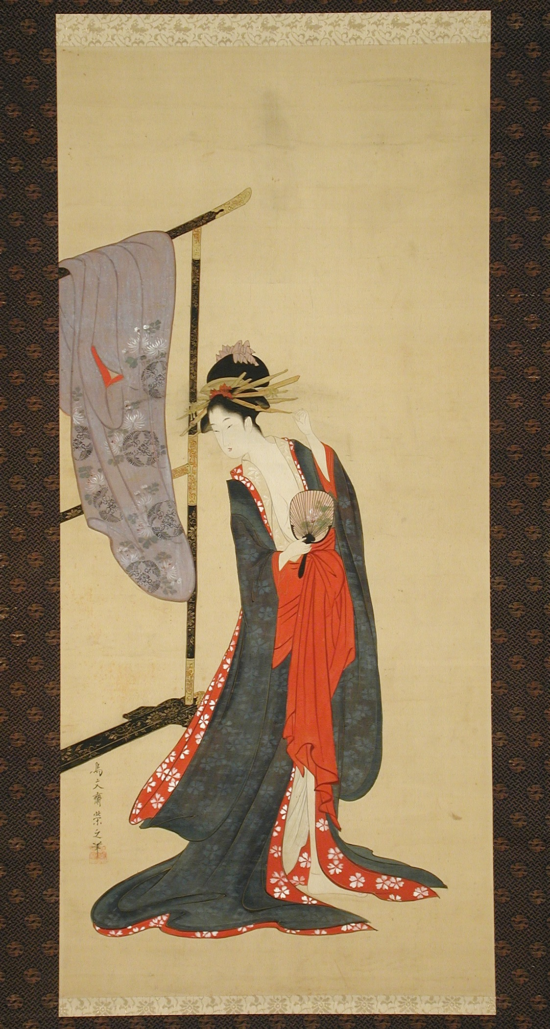 Japan, 18th-early 19th century Paintings; scrolls Hanging scroll; color on silk Image: 37 x 17 in. (94.0 x 43.2 cm); Mount: 71 3/8 x 22 in. (181.3 x 55.9 cm) Gift of Mr. and Mrs. Nathan V. Hammer (54.37.3) Japanese Art